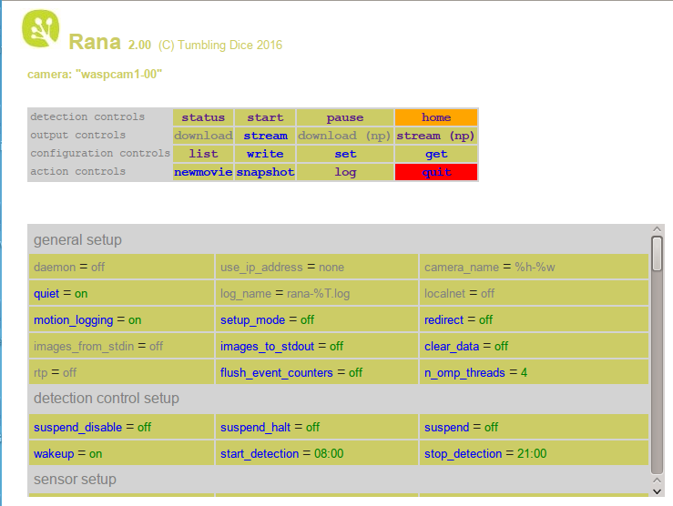 Web services control panel; for Rana motion detection system